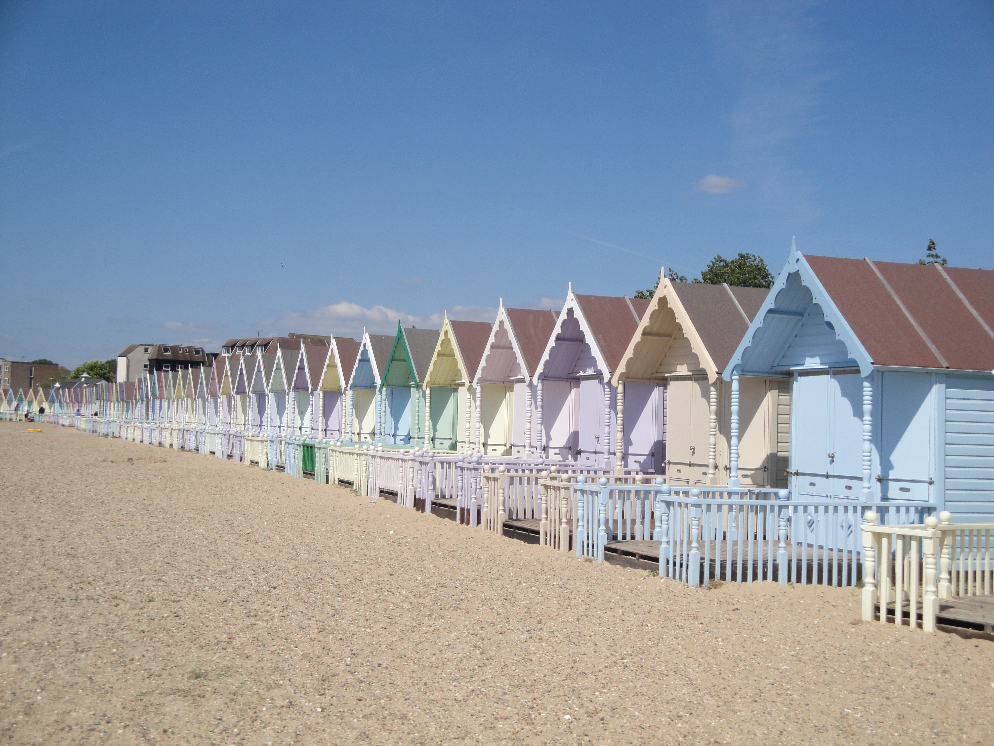 Beach huts along the beach at West Mersea, Essex. At this section of the beach, each hut is painted in a pattern.